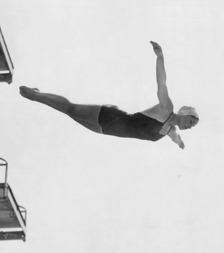 1947 San Francisco Diver Patsy Elsener Press Photo